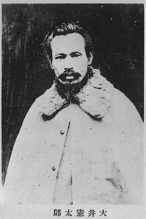 Portrait of Oi Kentaro (大井憲太郎, 1843 – 1922)